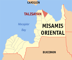 Map of the Misamis Oriental showing the location of Talisayan